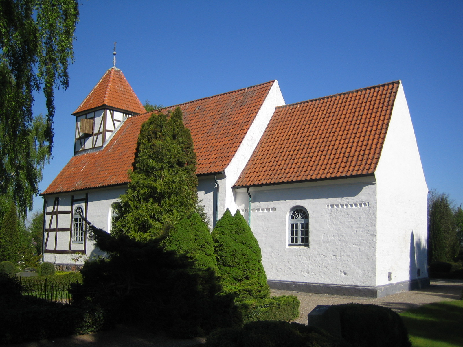 Photograph of Skørringe Kirke in Denmark